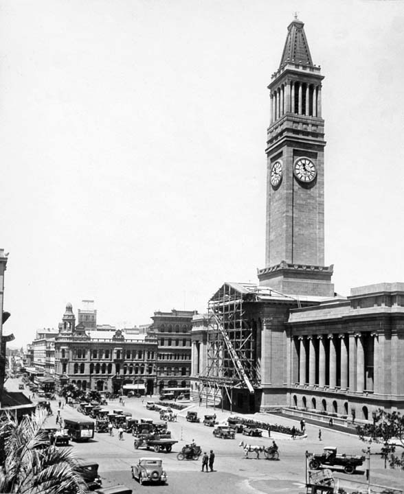 King George Square and Brisbane City Hall, Adelaide Street, Brisbane. (King George Square was previously known as Albert Square.)